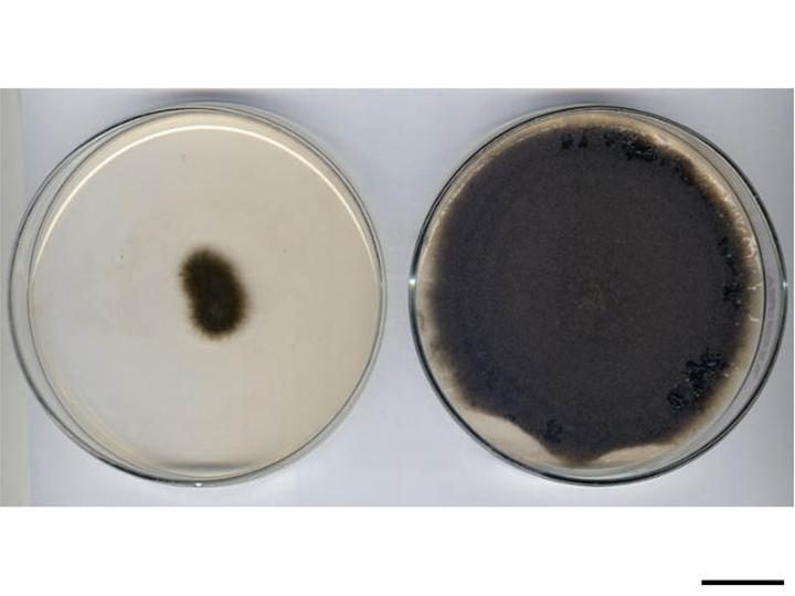 Colonies of Alternaria brassicicola on PDA after 3 days (left) and 17 days (right). Scale bar = 2 cm.